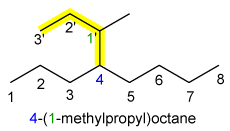 Example of incorrect IUPAC naming: 4-(1-methylpropyl)octane is incorrect, because the main-chain with the most branches has the be chosen. The correct name is 3-methyl-4-propyle-octane.